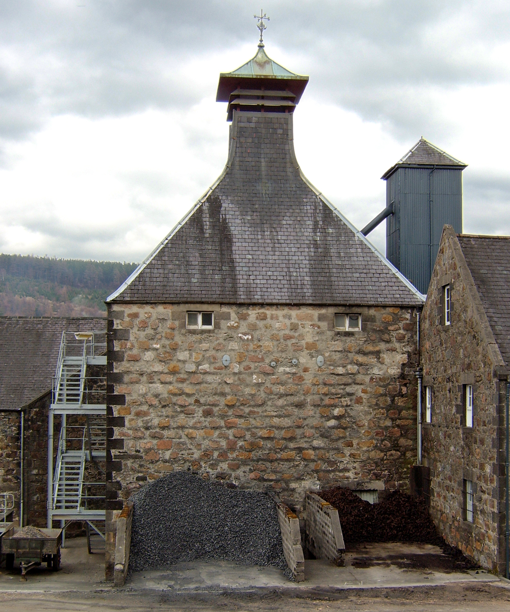 Category:Distillation Category:Scotland